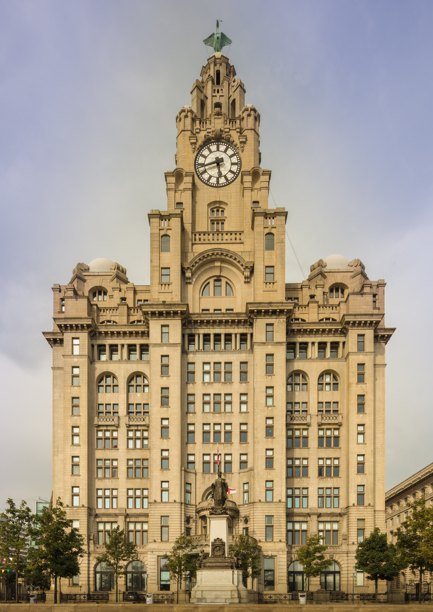 500px provided description: Here is a photograph taken from the Royal Liver Building. Located in Liverpool, Merseyside, England, UK. [#british ,#old ,#outside ,#architecture ,#cityscape ,#building ,#beautiful ,#pretty ,#england ,#exterior ,#famous ,#landmark ,#liverpool ,#historic ,#royal ,#european ,#english ,#liver ,#the royal liver building ,#scouse ,#merseyside ,#ornate ,#pritty ,#royal liver building ,#liverpudlian]